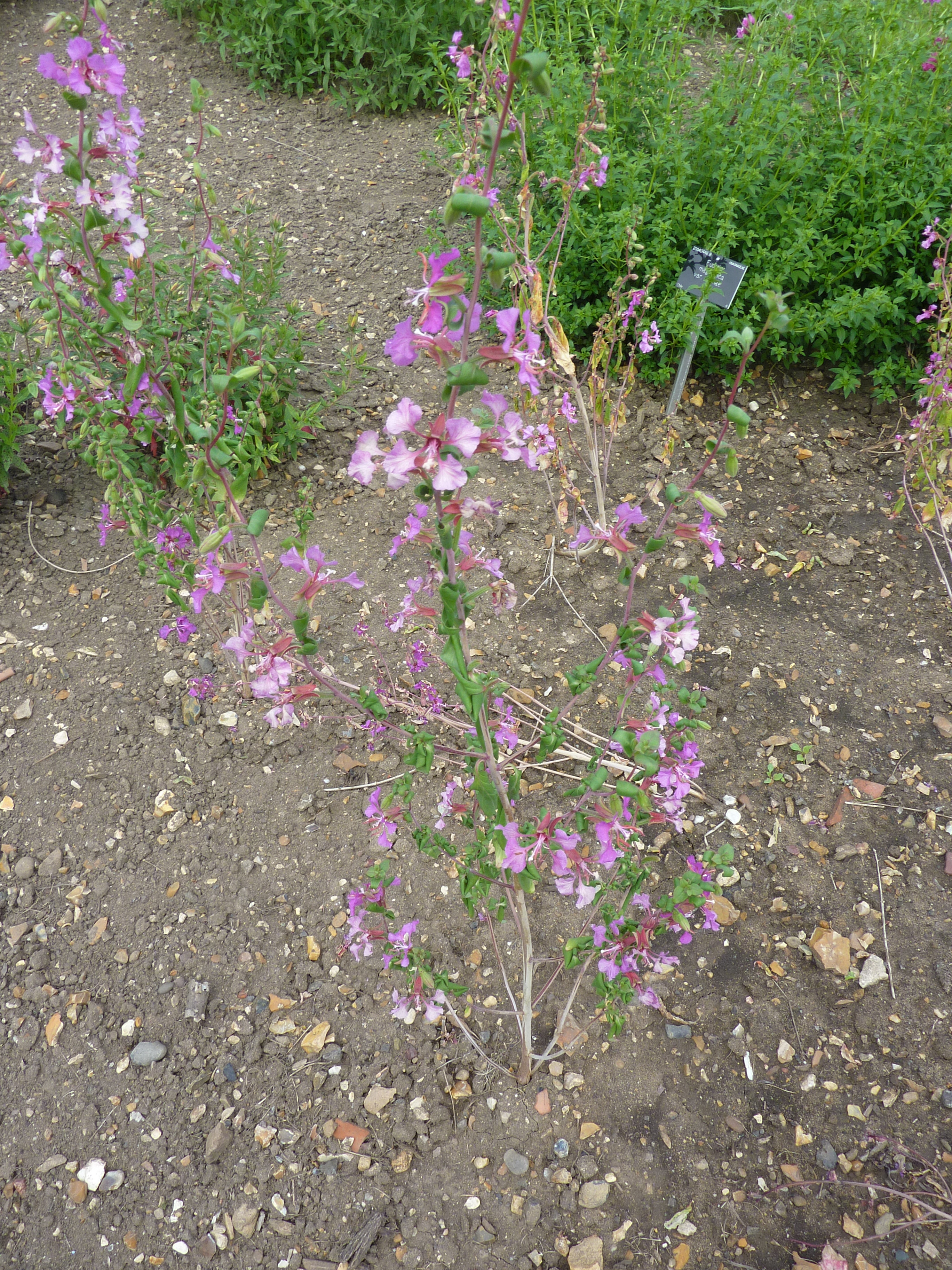 Taken in the Cambridge University Botanic Garden